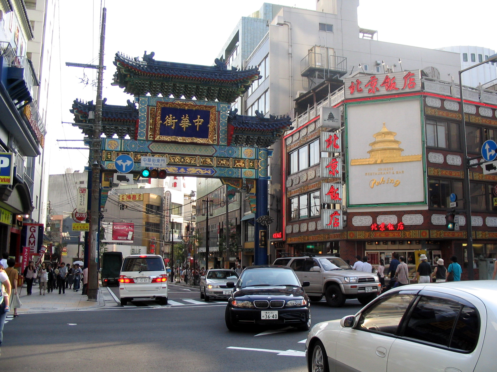 East gate, Yokohama Chinatown, Japan.